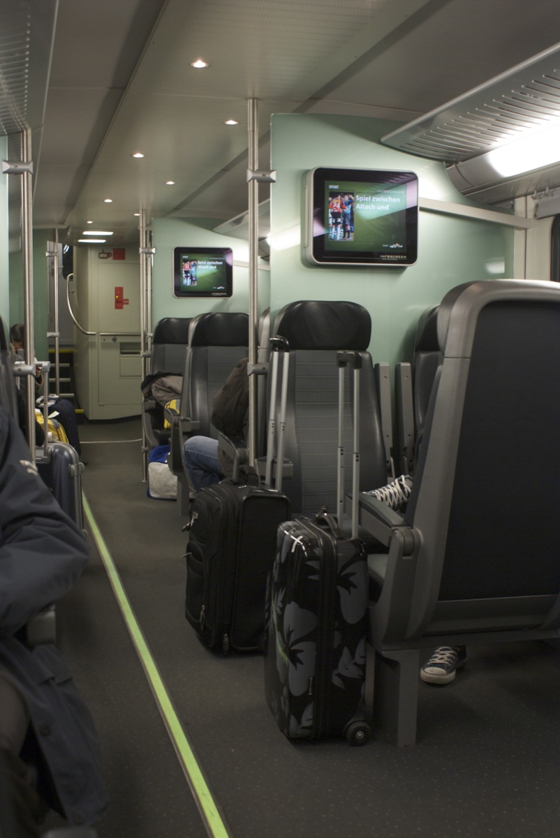 Very comfortable and only takes 20 minutes to reach the centre of Vienna